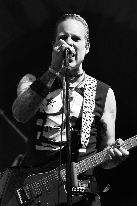 Nick Curran - The Fabulous Thunderbirds; Pistoia Blues 2007